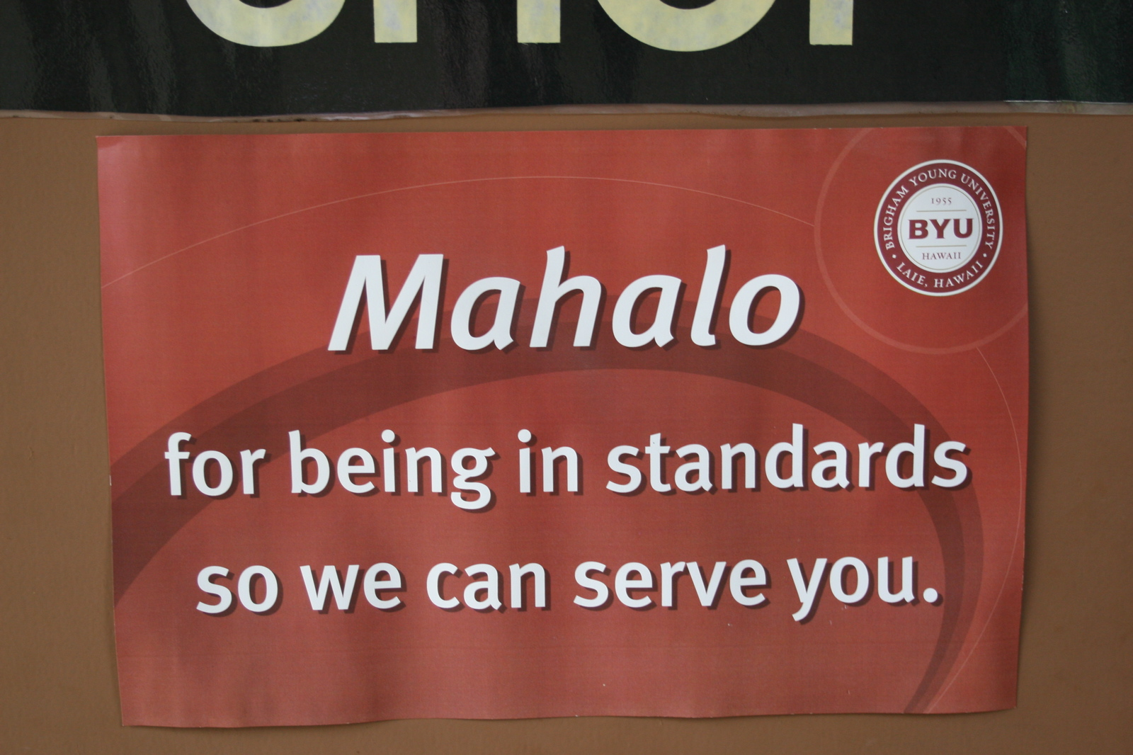 BYUH Honor Code reminder